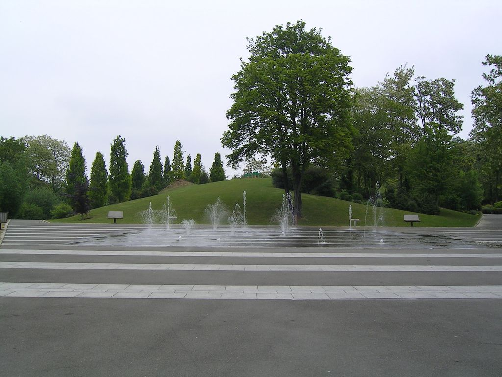 Q26992298 in Rosny-sous-Bois